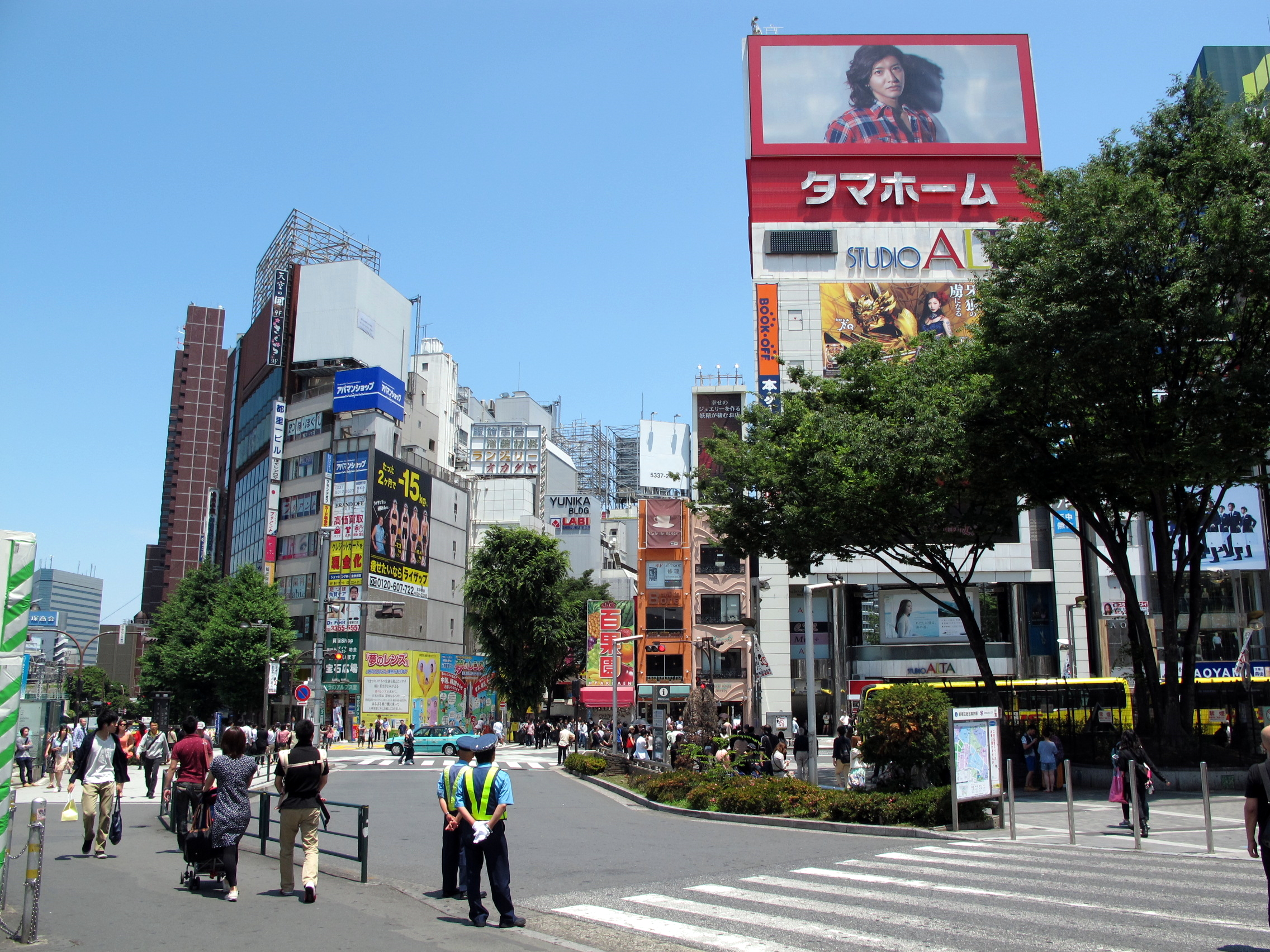 Area around Shinjuku station east